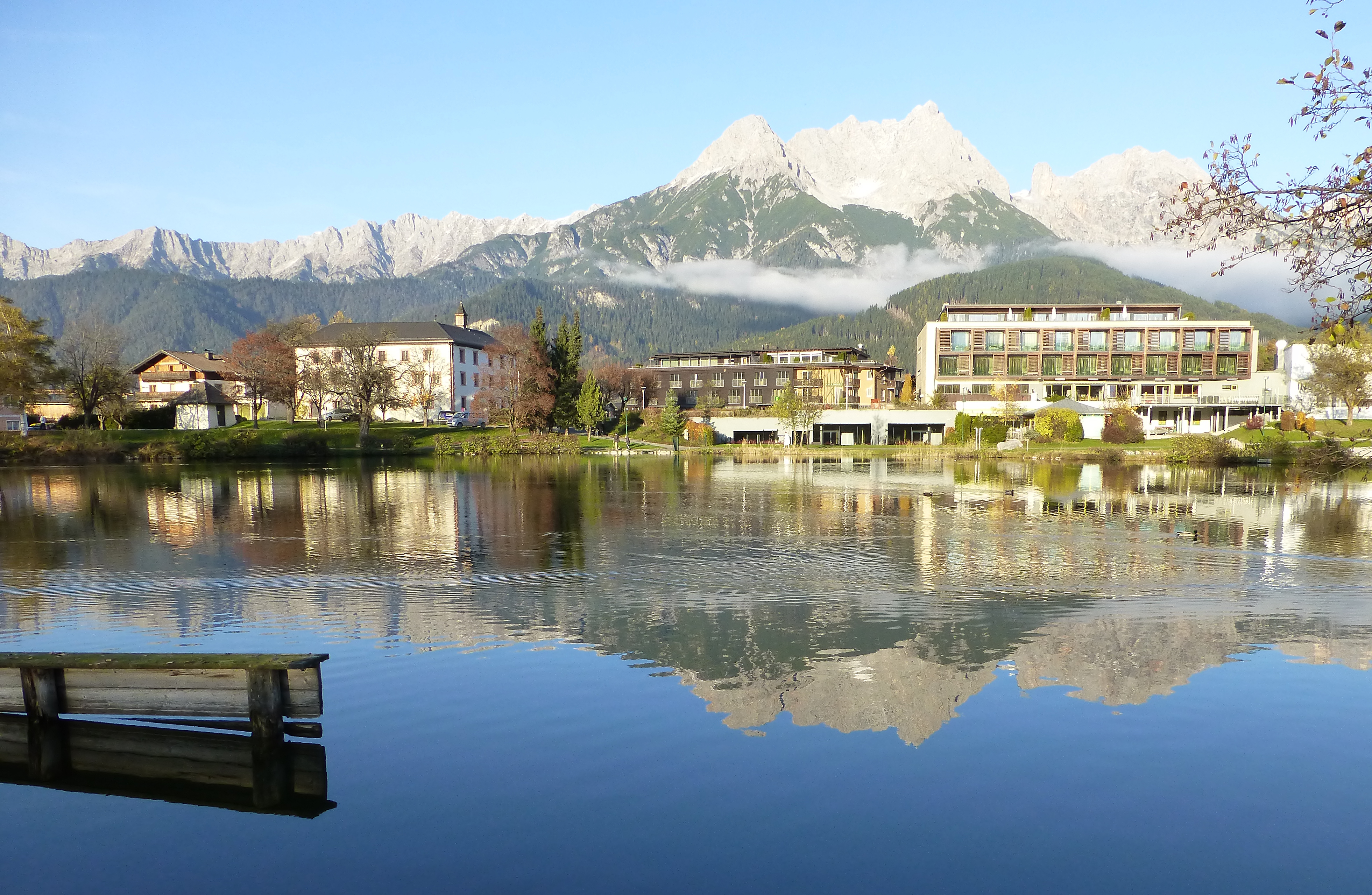 Ritzen Castle, museum, Saalfelden, Salzburg (state), Austria Dieses Bild wurde anlässlich des österreichischen Tags des Denkmals 2014 in Salzburg eingereicht.